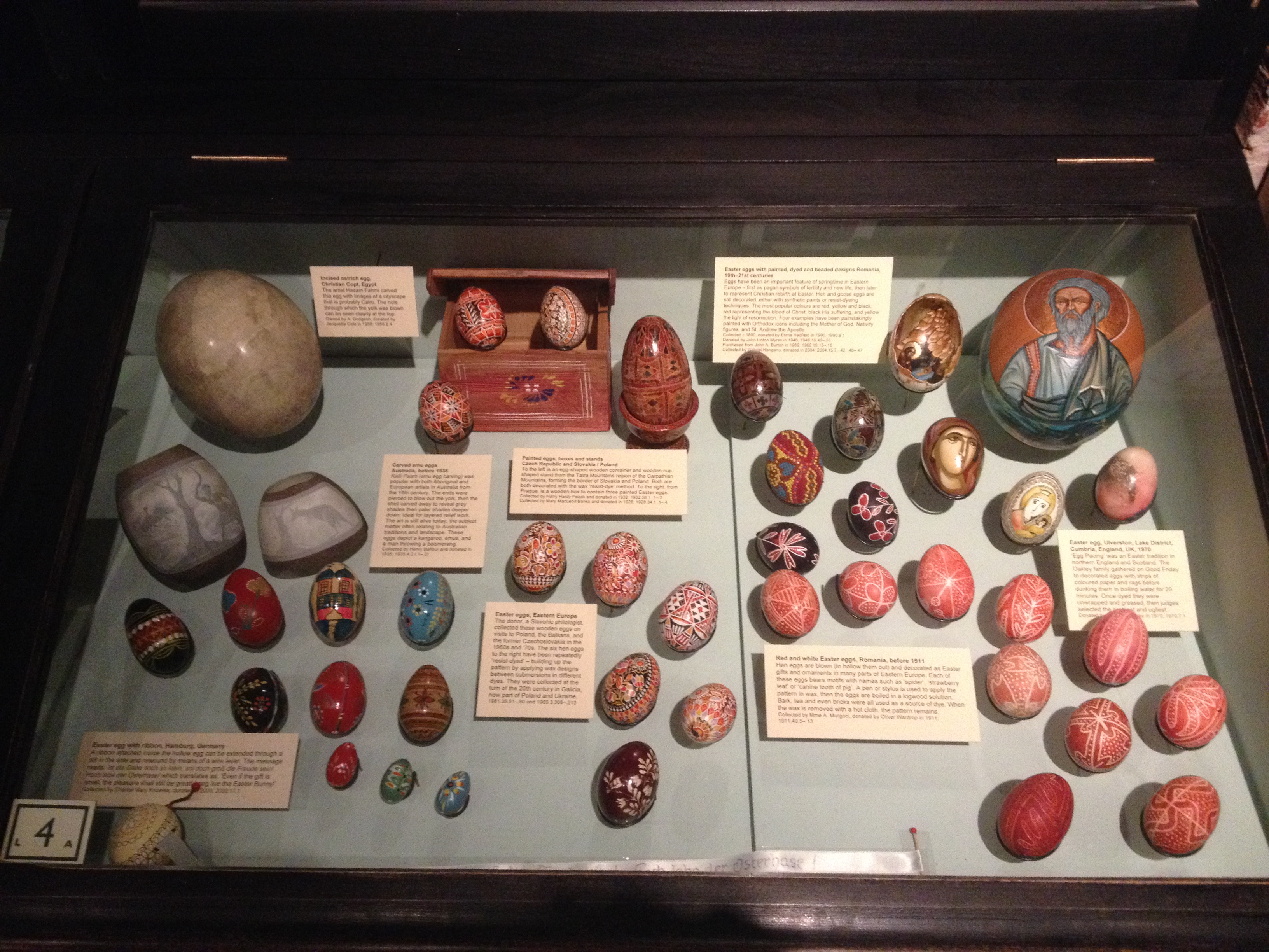 University of Oxford, Oxford, Royaume-Uni, March 2019